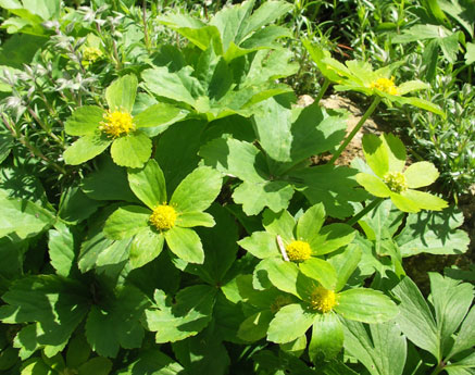 Hacquetia epipactis in Cieszyn